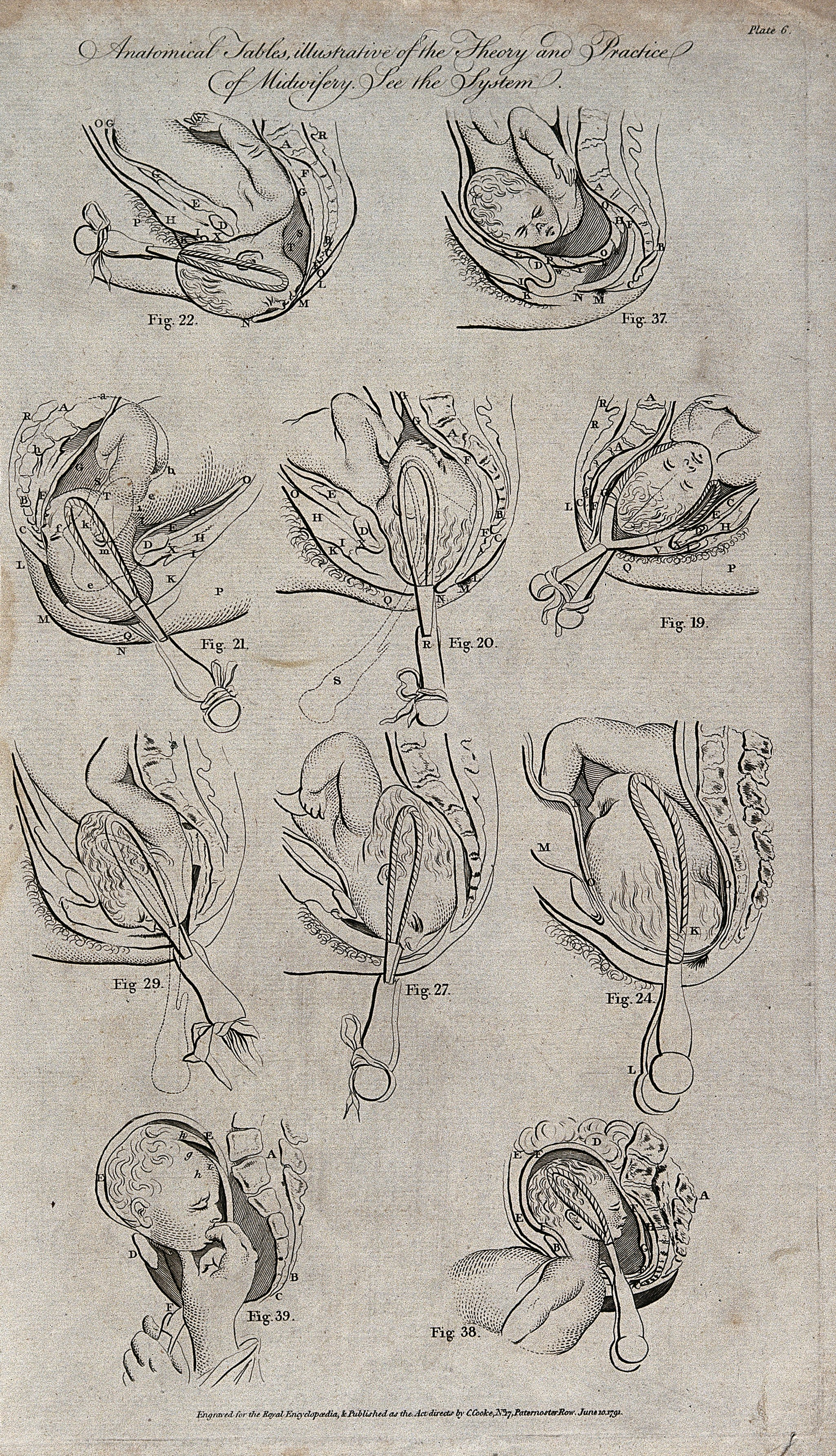 Ten diagrams illustrating various methods of delivering a baby using forceps. Etching, 1791. Iconographic Collections Keywords: BIRTH; FORCEPS; Surgical Instruments; Obstetrics; midwives; CHILDBIRTH; Parturition